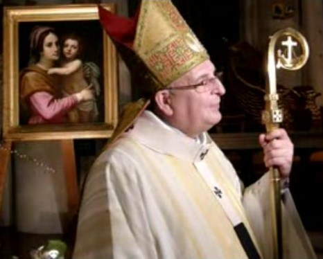 bishop André Lacrampe archbishop of Besançon. april 2010